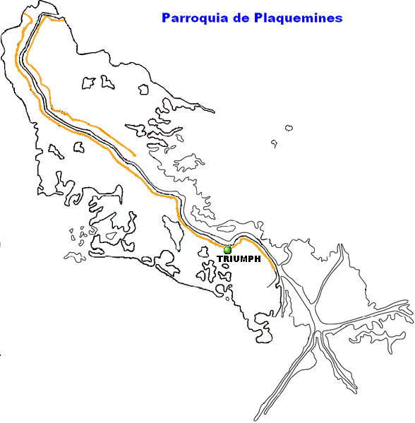 Triumph, LA.